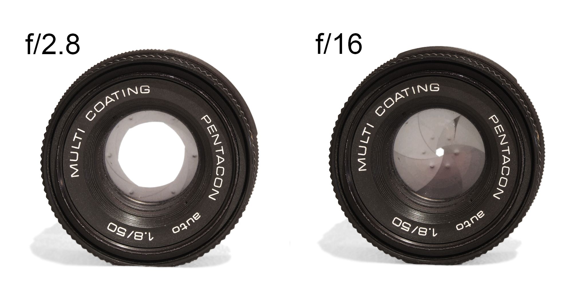 Diagram giving a big (f/2.8) and a small (f/16) aperture in the camera lens